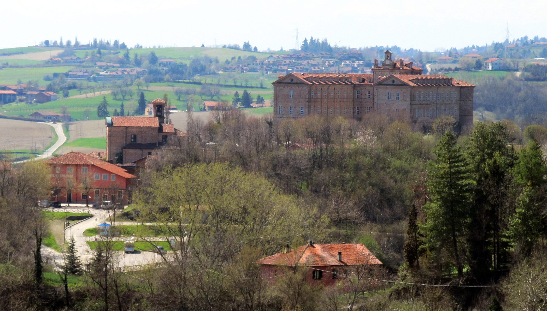 Montaldo Torinese (TO, Italy): panorama